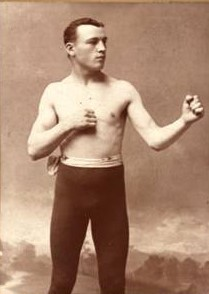 Mysterious Billy Smith posing for photo